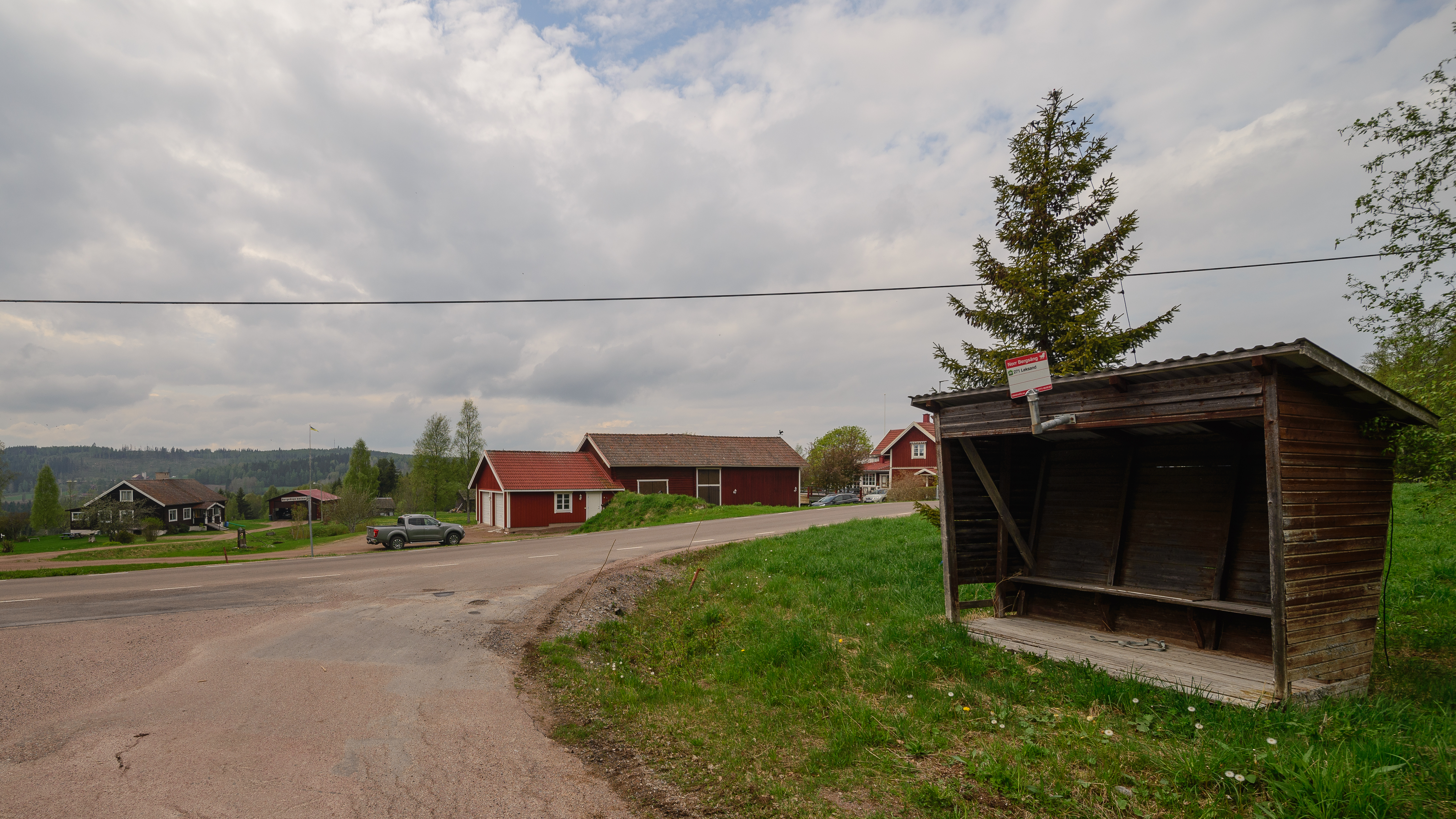 The small village Norr Bergsäng in Leksand Municipality.